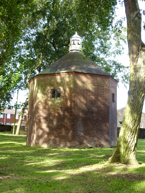 The surviving medieval dovecote at Dovecotes estate, Barnhurst, Wolverhampton, from which the area takes its name.